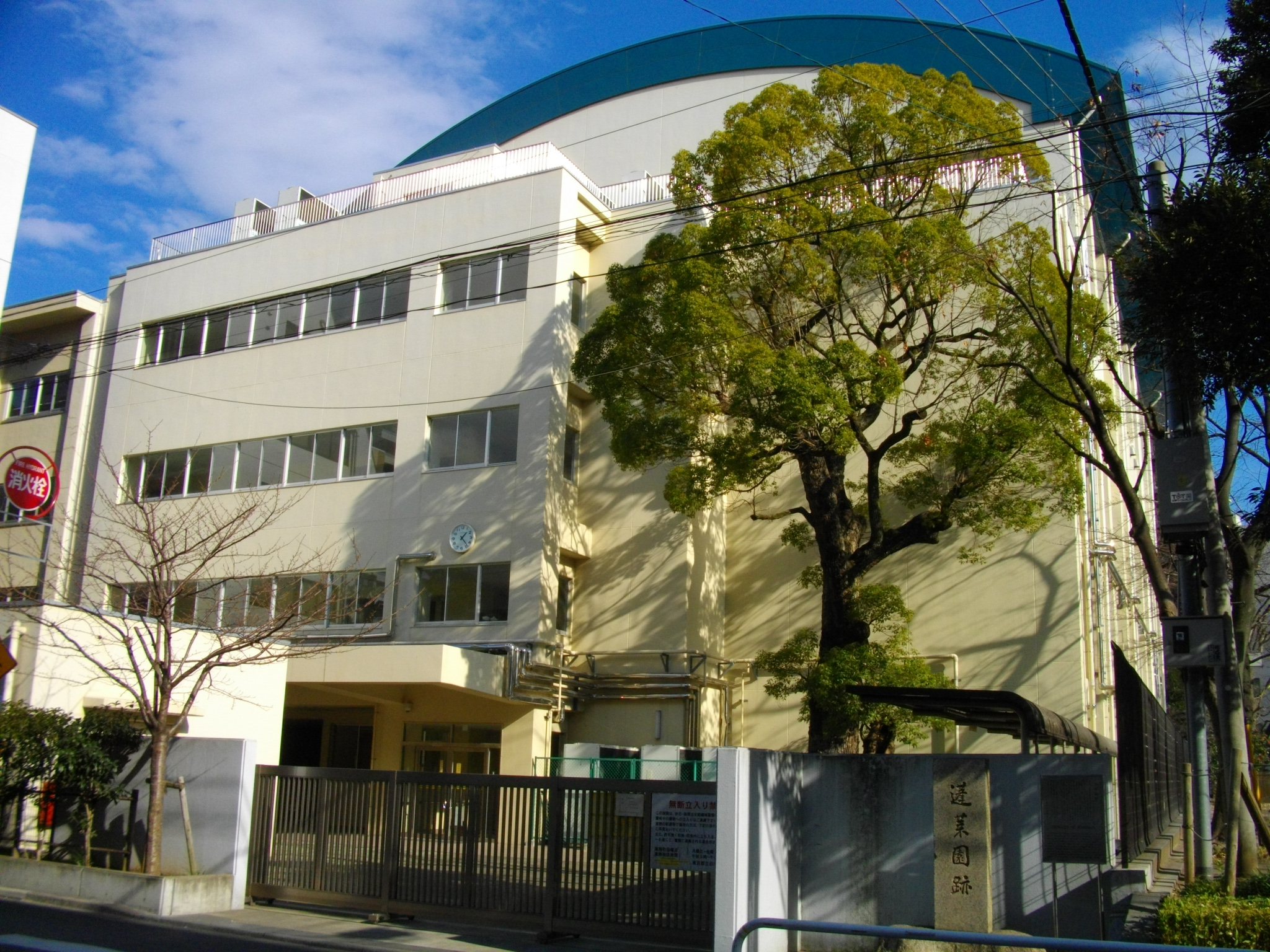 Shinobugaoka High School